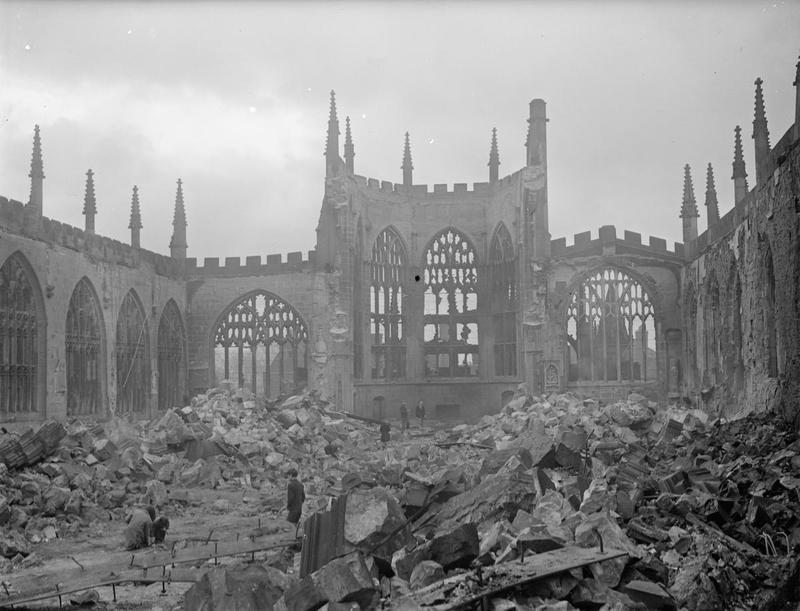 Air Raid Damage in the United Kingdom 1939-1945 The ruins of Coventry cathedral two days after the German Luftwaffe air raid on the city on the night of 14 November 1940.